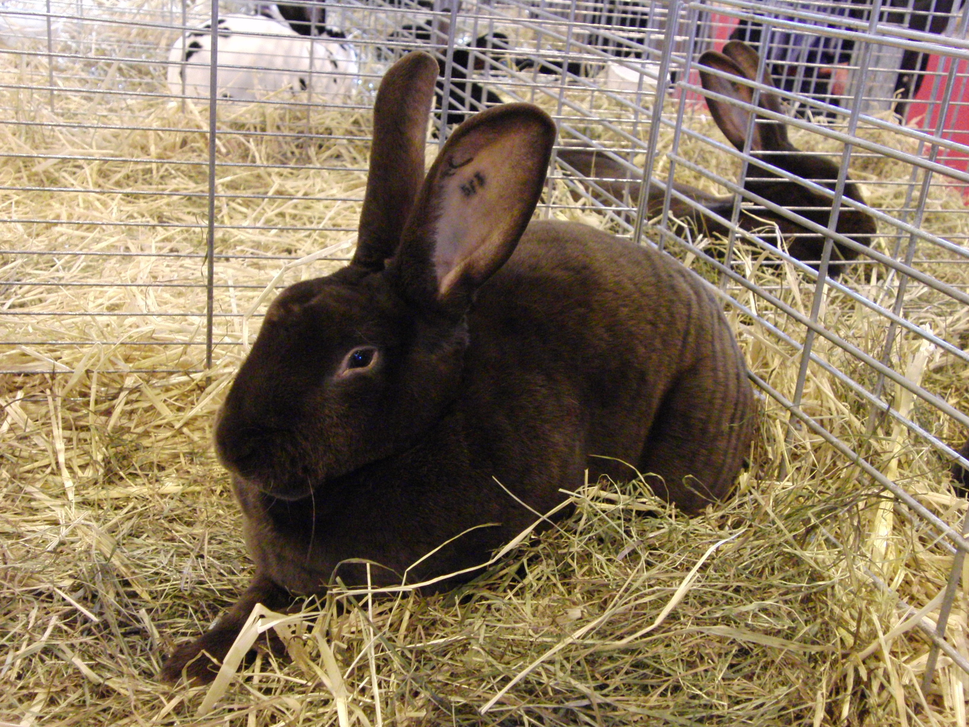 Rex rabbit - Paris International Agricultural Show 2014, France